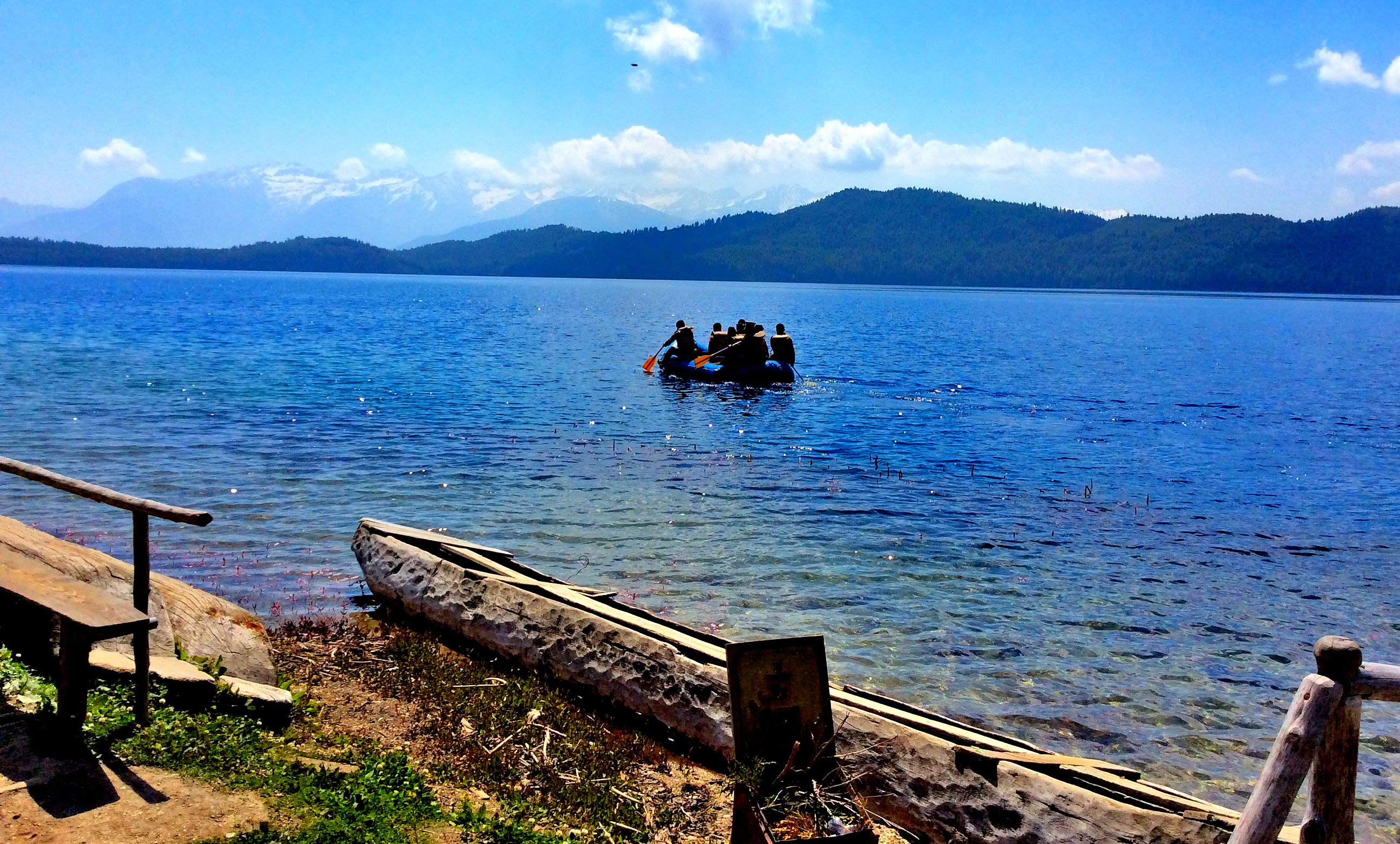 Rara lake is the biggest lake of Nepal